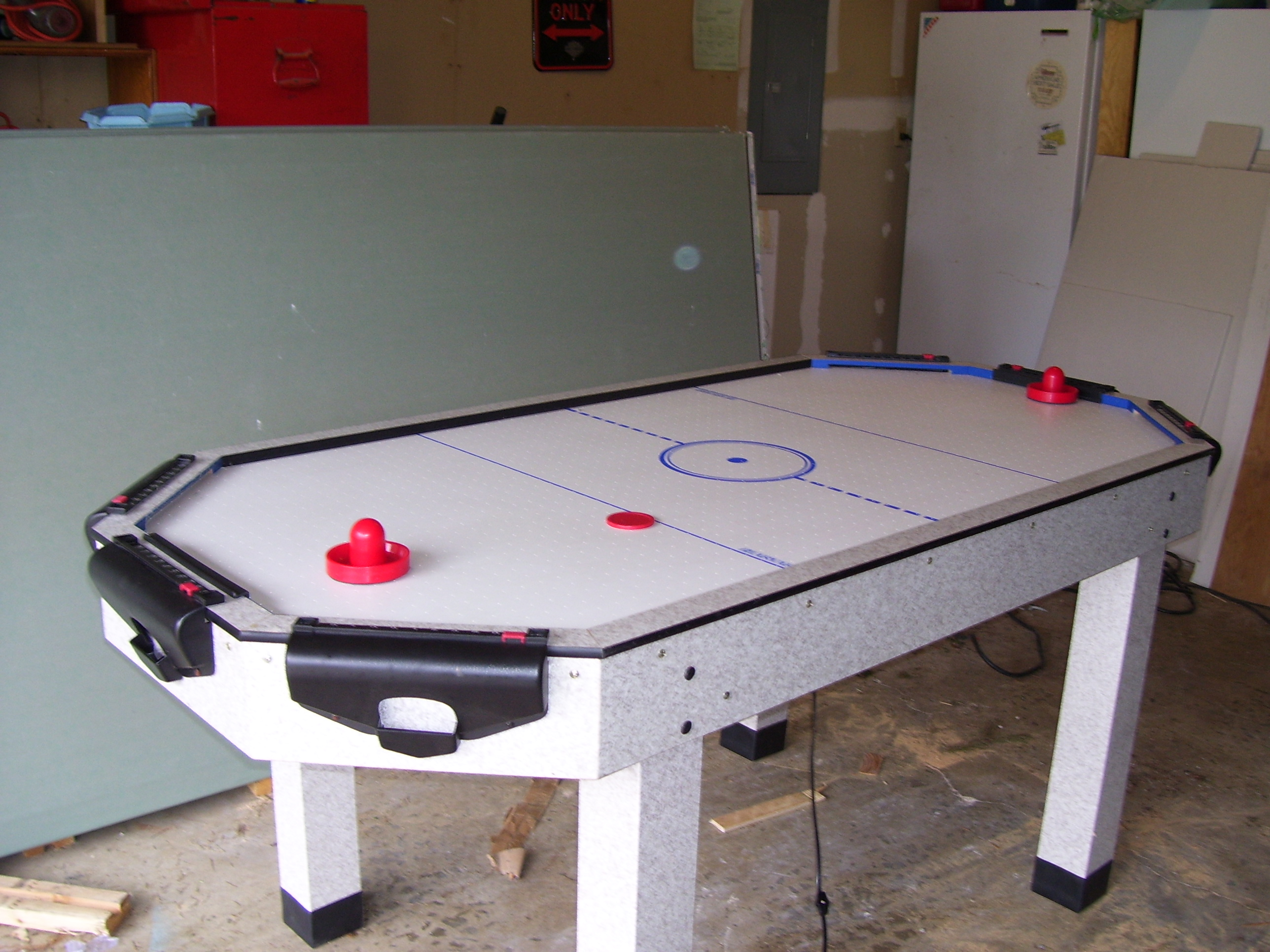 Air Hockey table with two paddles and one puck.